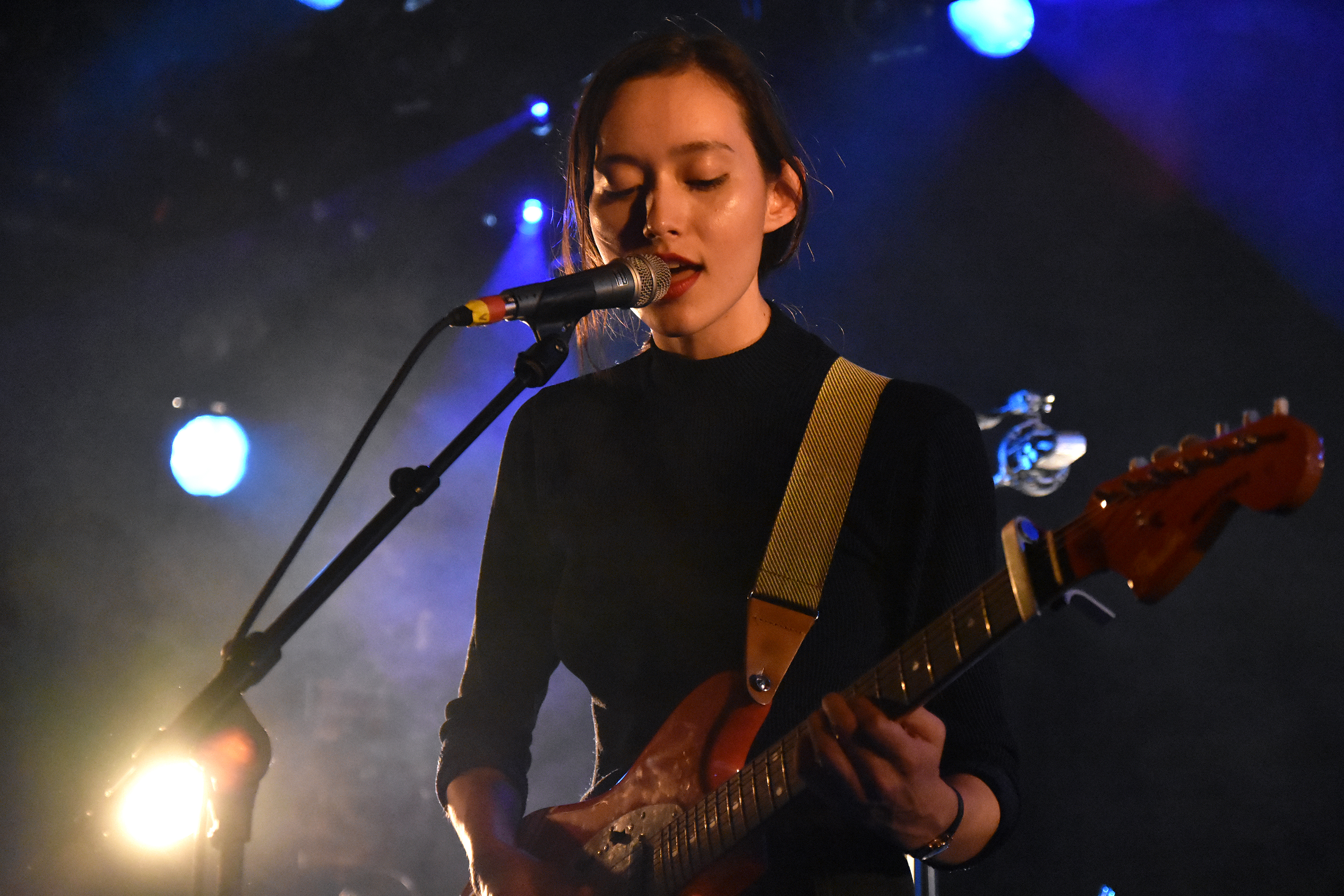 FAZERDAZE La Maroquinerie - Paris, lundi 22 mai 2017